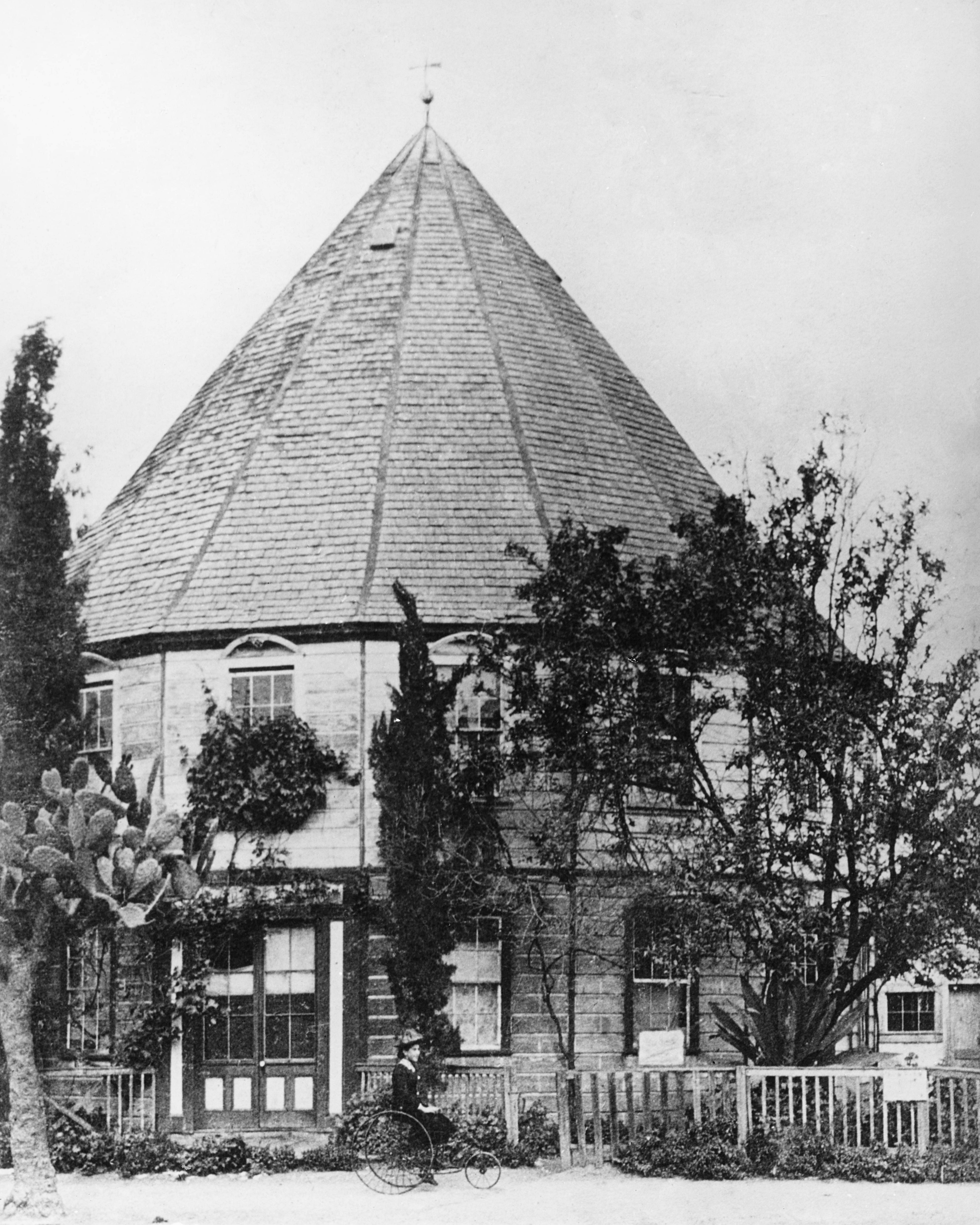 Photograph of an exterior view of the Round House, built by Ramon Alexander in 1854, 311 to 317 South Main Street (through to Spring Street) south from Third Street, ca.1880-1885. A child on a tricycle rides on the sidewalk in front of it. It is fronted by a wooden fence. Trees grow in the shallow yard just behind the fence. The house was so-named because of its round footprint and conical roof. It was owned by George Lehman and last used as a kindergarten school.